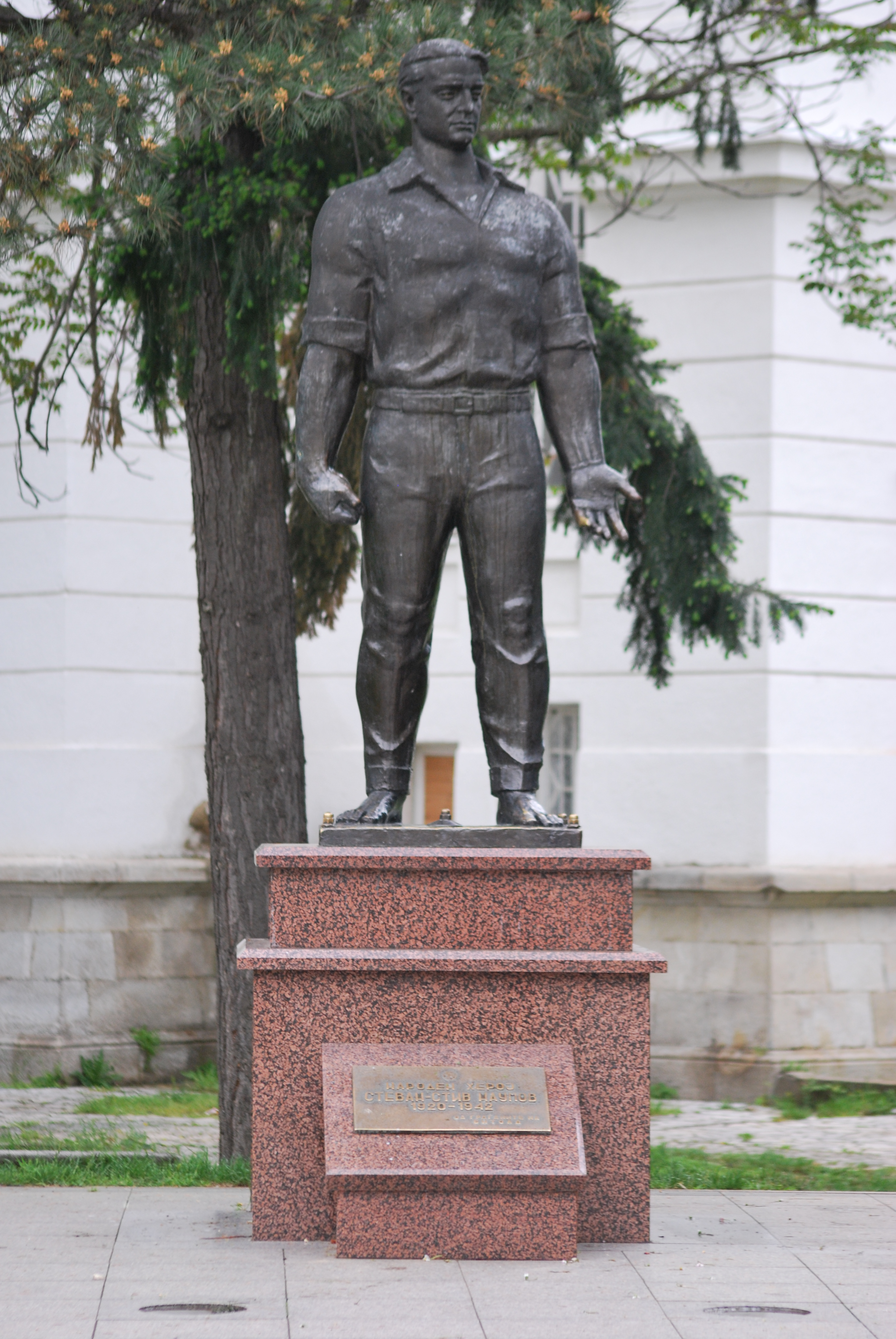 This image is uploaded as part of the picture contest Wiki Loves Cultural Heritage in Macedonia 2013. English | македонски | +/− Споменик на Стив Наумов во Битола